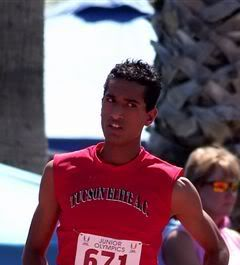 Khairandesh running at Junior Olympics in Glendale, AZ.